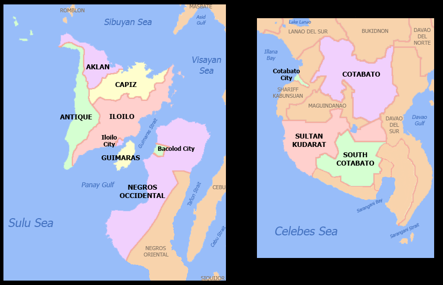 Hilgaynon Language